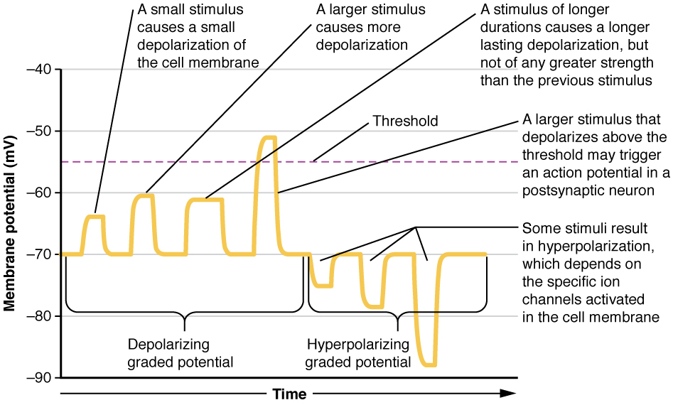 Version 8.25 from the Textbook OpenStax Anatomy and Physiology Published May 18, 2016